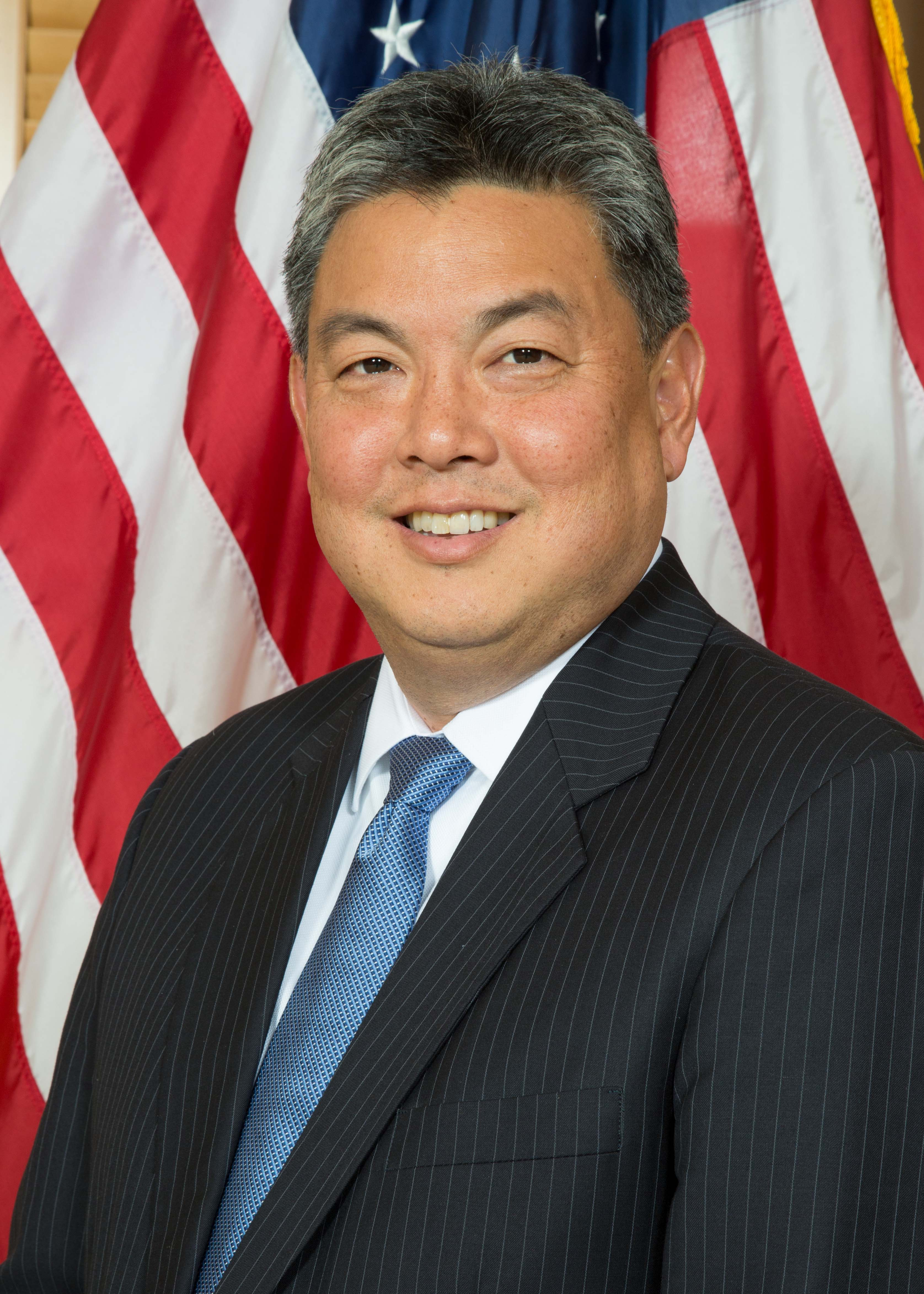 Mark Takai official portrait 114th Congress